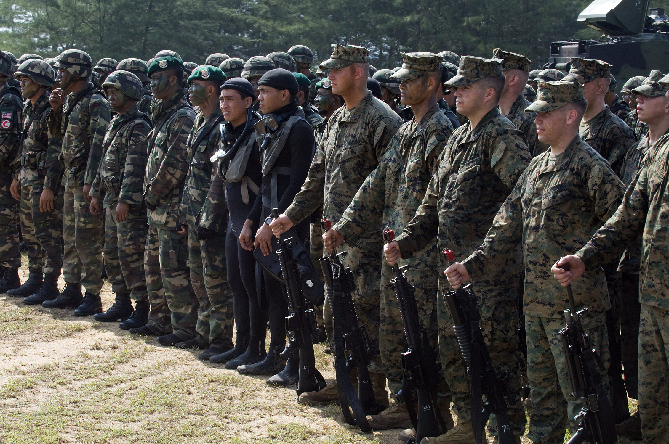 090701-N-1722M-511 TERENGGANU, Malaysia (July 1, 2009) Members of the Malaysian Army 9th Royal Malay Regiment stand in formation with U.S. Marines during the closing ceremony for Cooperation Afloat Readiness and Training (CARAT) Malaysia 2009. CARAT is a series of bilateral exercises held annually in Southeast Asia to strengthen relationships and enhance the operational readiness of the participating forces. (U.S. Navy photo by Mass Communication Specialist 1st Class Michael Moriatis/Released)